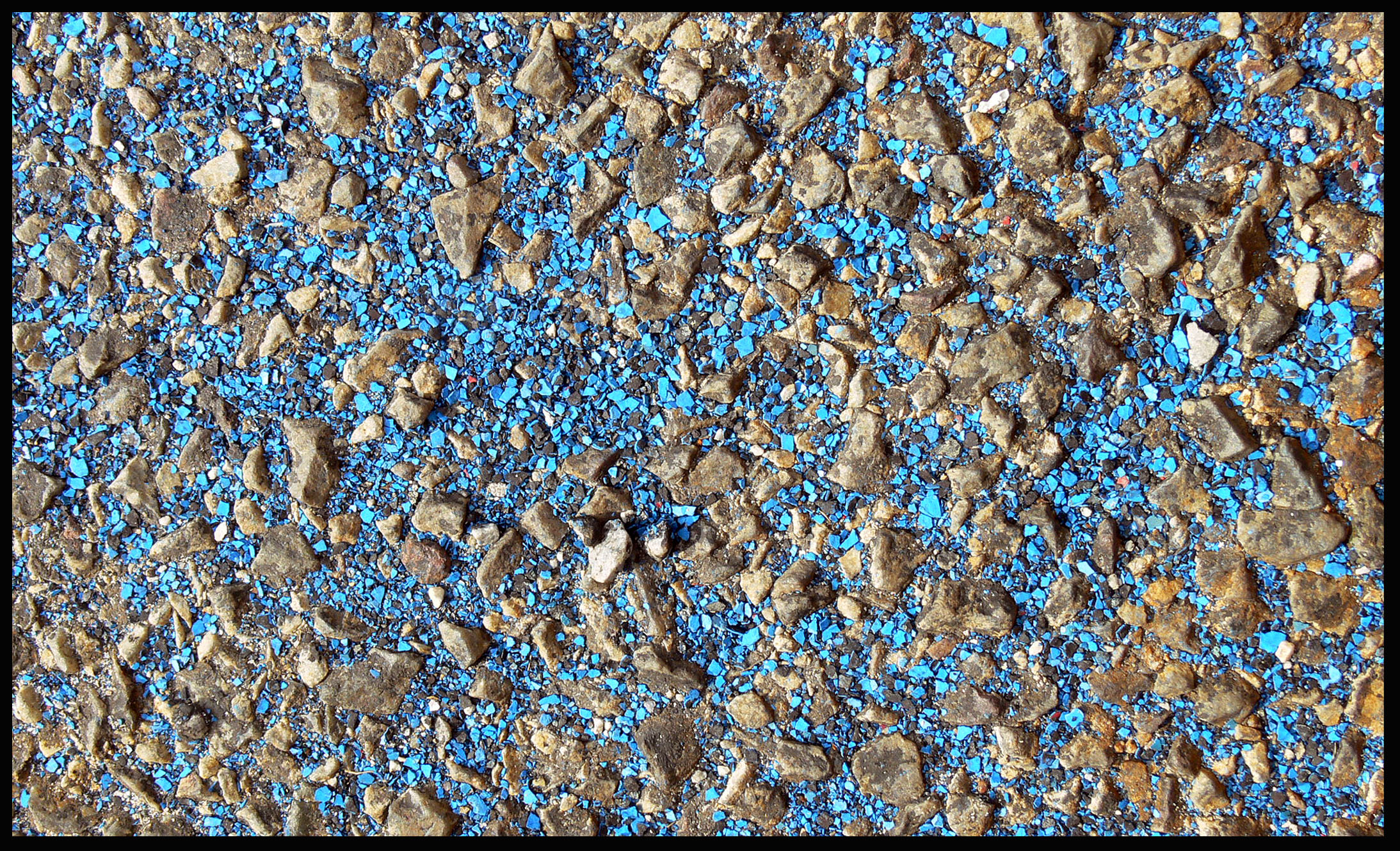 Flakes of antifouling paint (toxic) left by the stripping of a sailboat hull before repainting left on the ground, in an area that is underwater during high tides. Photo taken in France, in the Department of Morbihan on the edge of the Auray river.